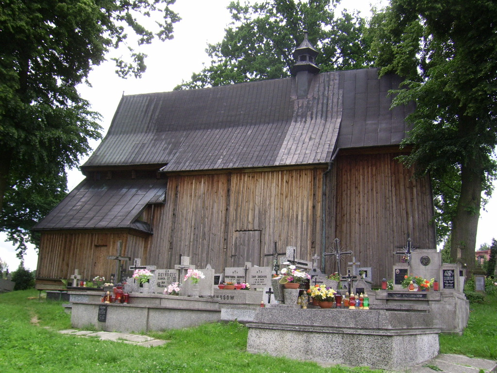 Church of the Visitation of the Most Blessed Virgin Mary in Iwkowa, Poland. 15th-17th century.